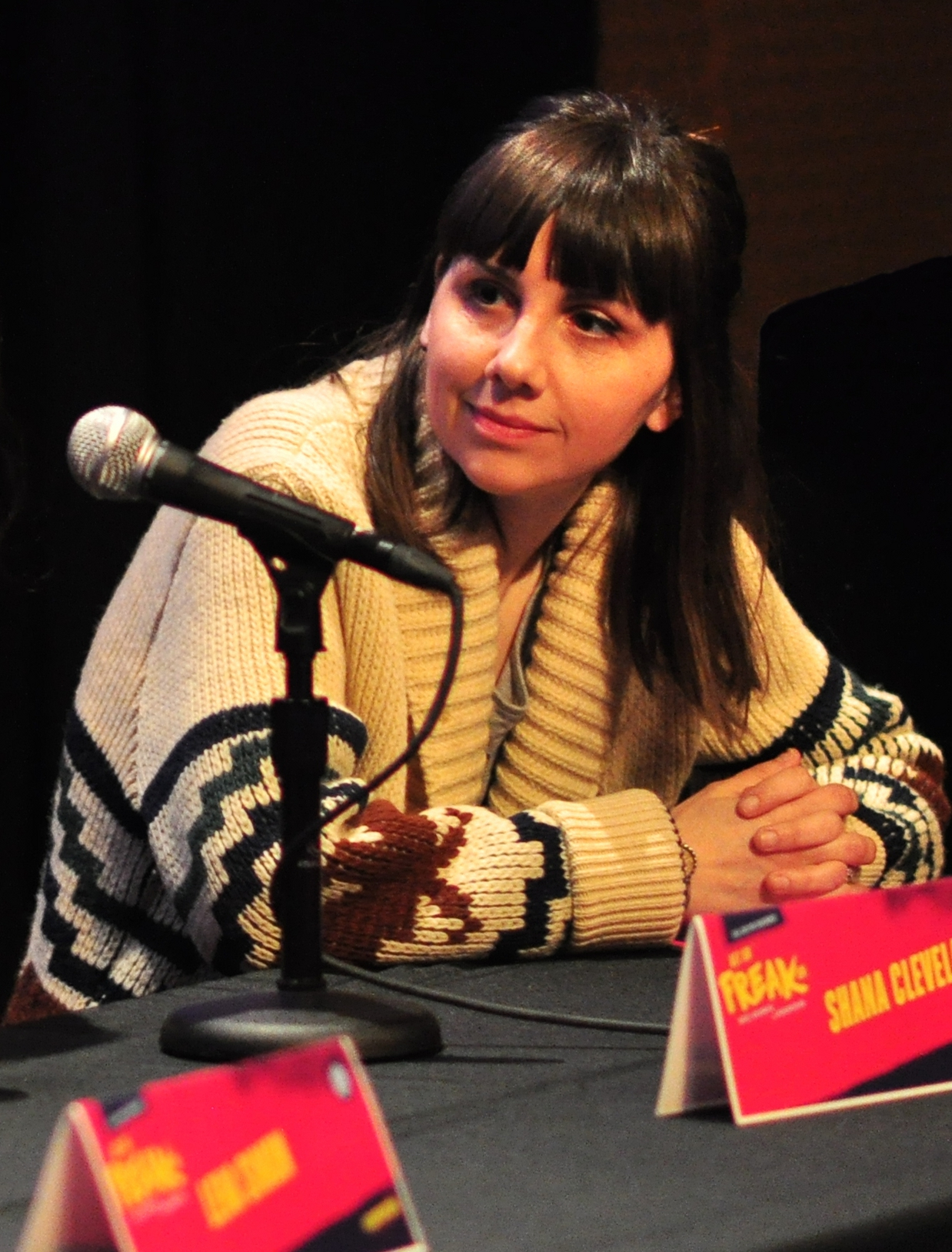 Jessica Hopper as the moderator of the Revolution Grrrl Style 21st Century panel - JBL Theater, Friday, April 17, 2015 as part of Pop Conference 2015, EMP Museum, Seattle, Washington.